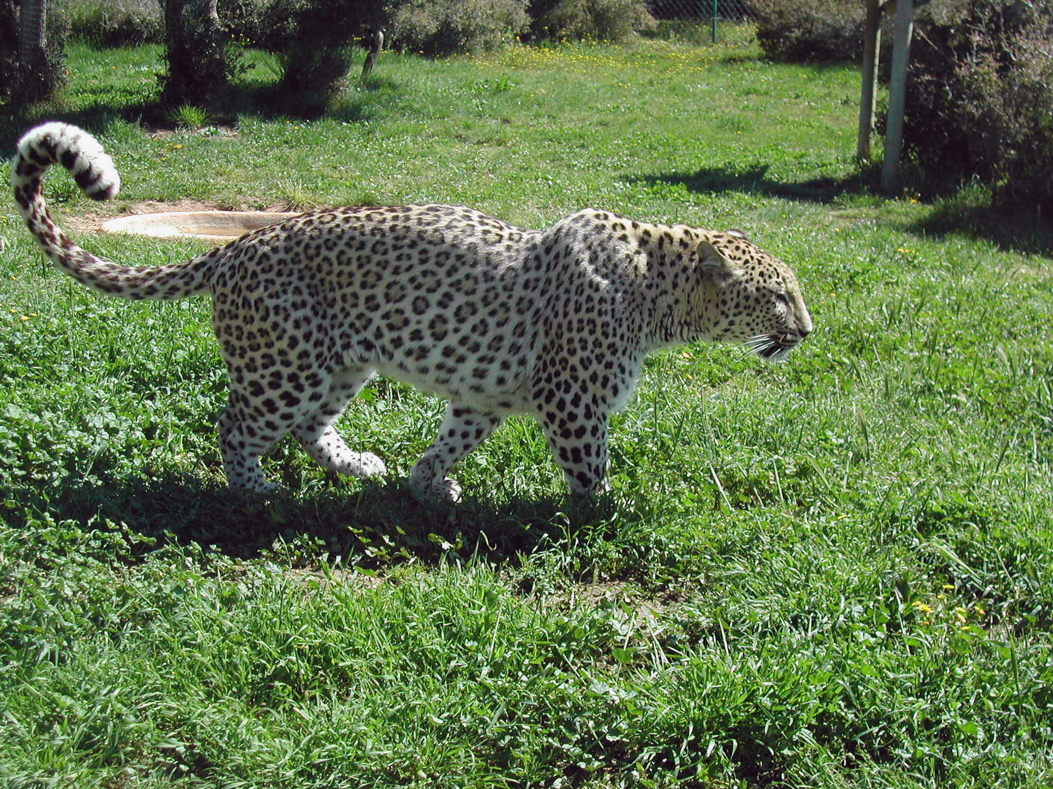 Persian leopard (Panthera pardus saxicolor)